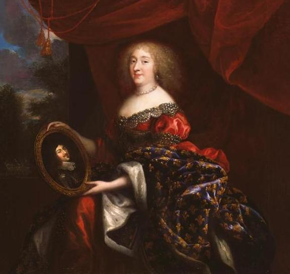 Detail